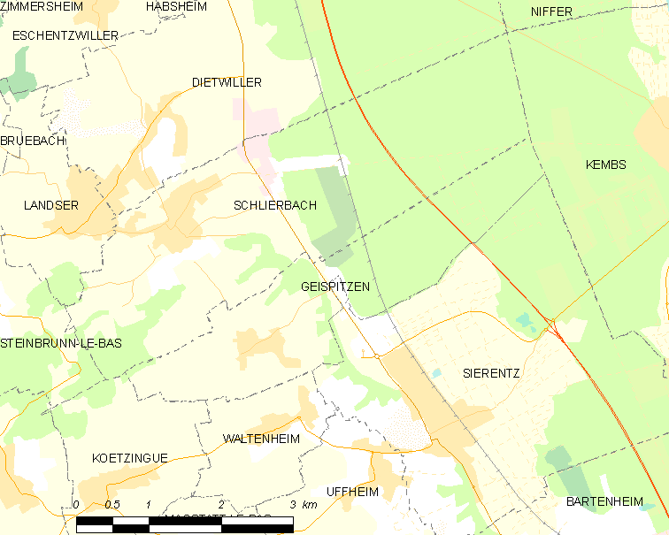 Map of French municipality